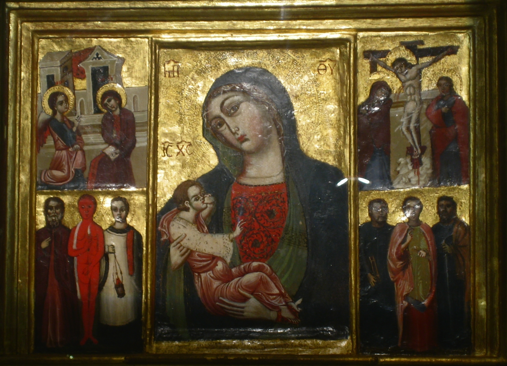 Altar painting of Our Lady, Mother of Grace, Trsat, Croatia (prob. 12th cent.)